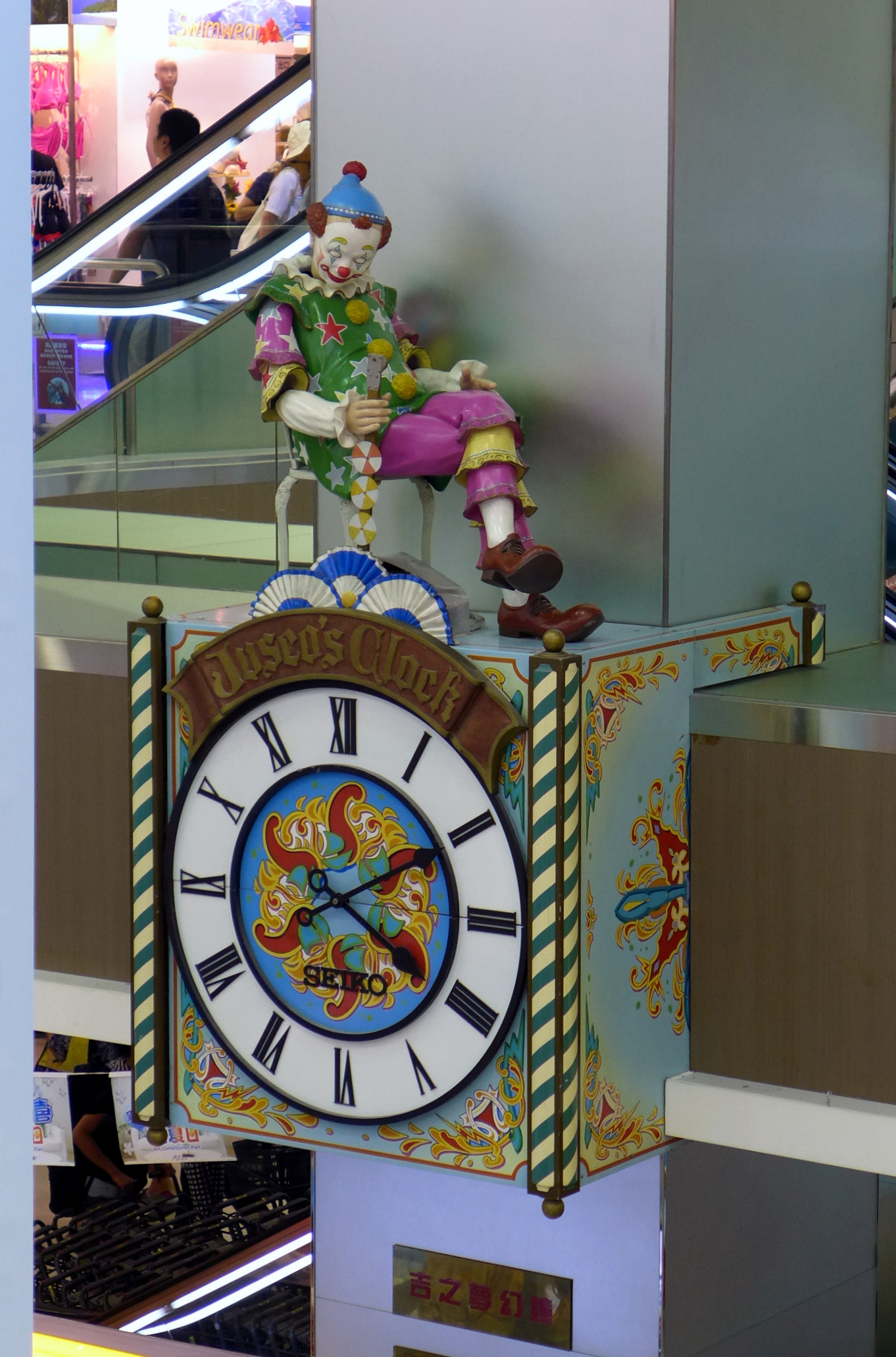 Jusco Clock in Kornhill Store